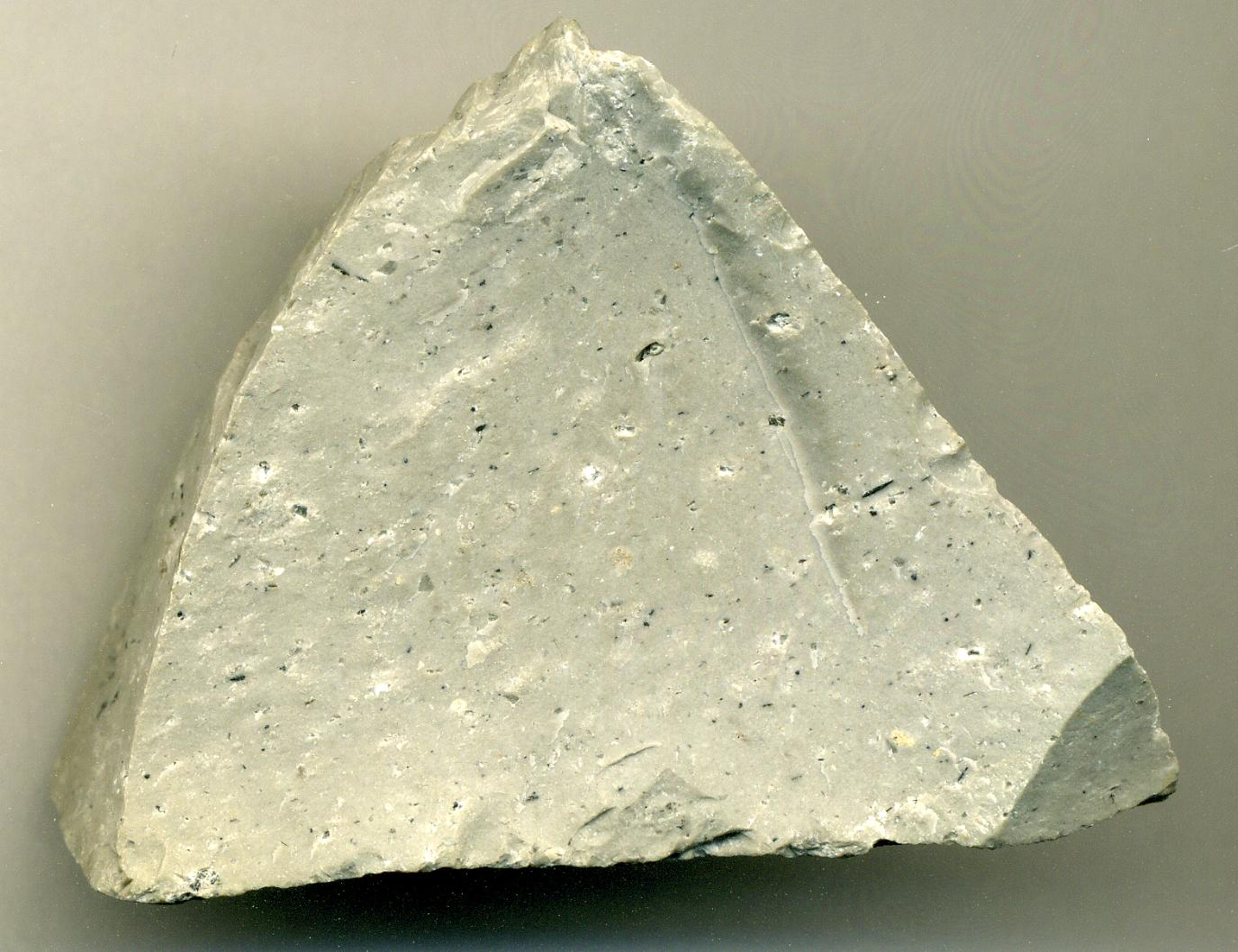 Rhyolite hand specimen.